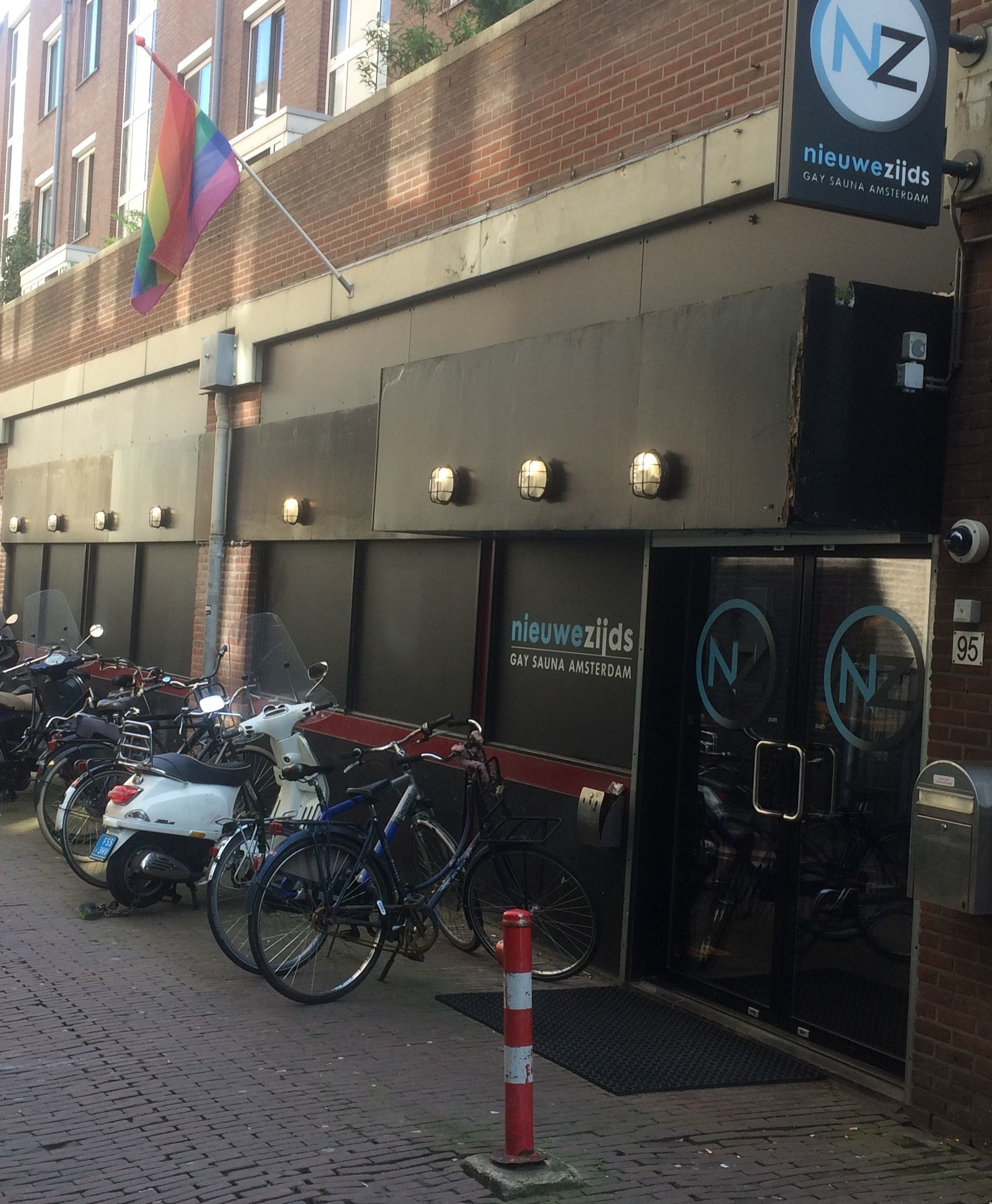 NieuweZijds (or NZ) is a sauna for gay people, located at Nieuwezijds Armsteeg 95, near Nieuwezijds Voorburgwal, since 2013.